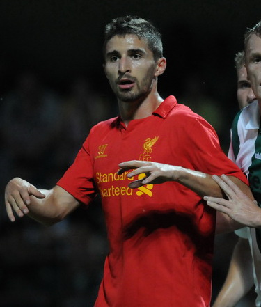 Fabio Borini playing for Liverpool FC against FC Gomel in Europa League.